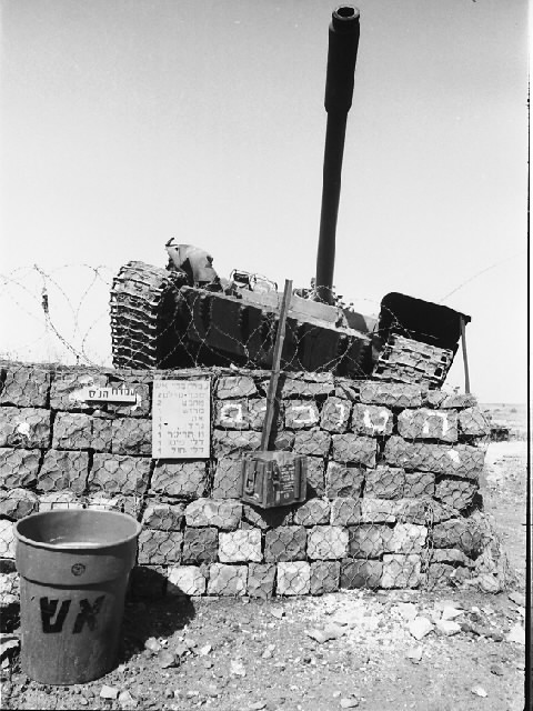 On the Yom Kippur of October 6, 1973, Egypt and Syria launched a coordinated surprise attack on Israel. The Yom Kippur War was launched on the holiest day on the Jewish calendar: The Day of Atonement. Israeli forces succeeded in halting most of Syrian and Egypt forces. Pictured here is a Syrian tank that was blocked from attacking an IDF post. Photo: IDF photo archives.